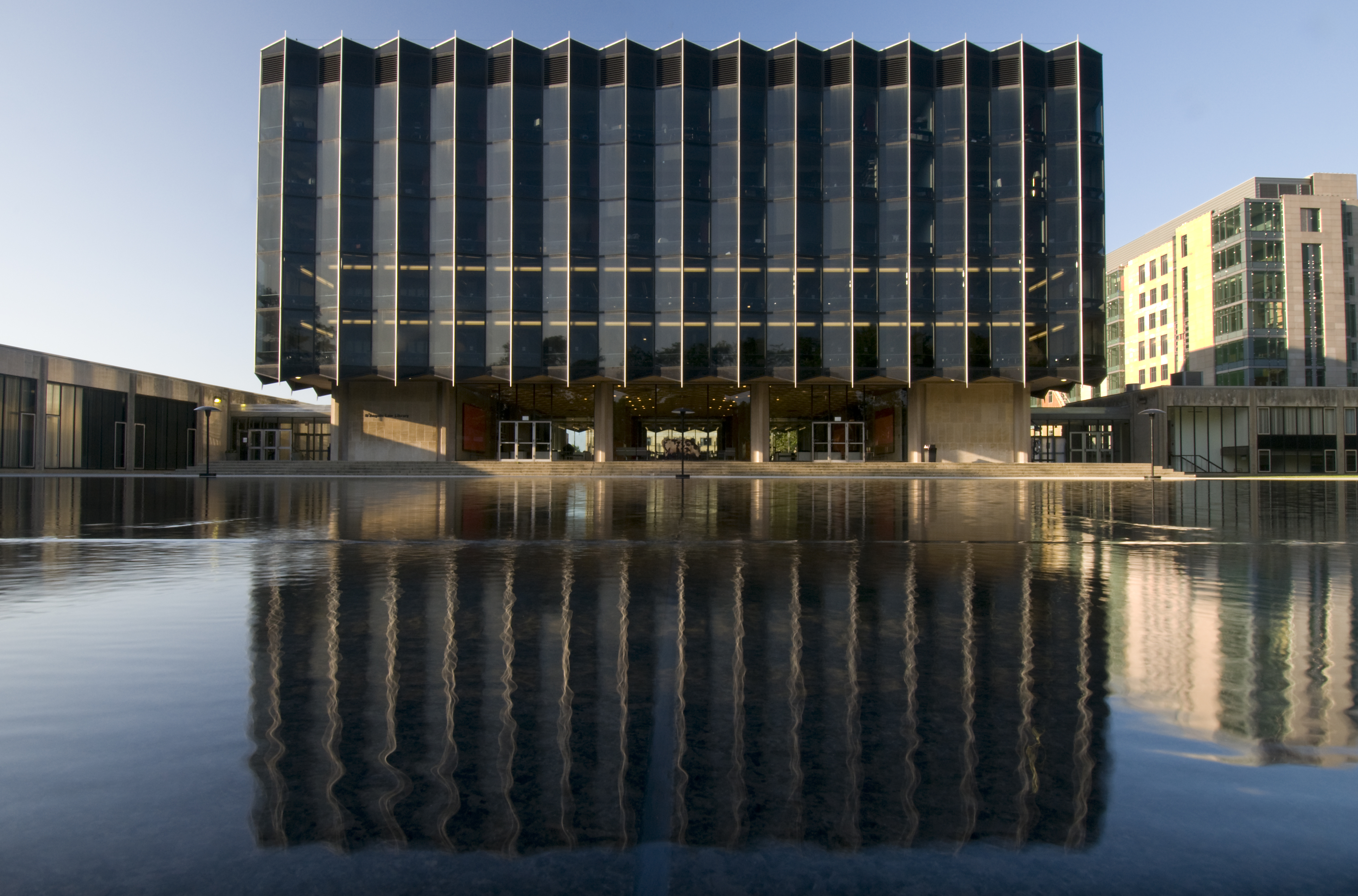 Daytime picture of the Laird Bell Law Quadrangle.